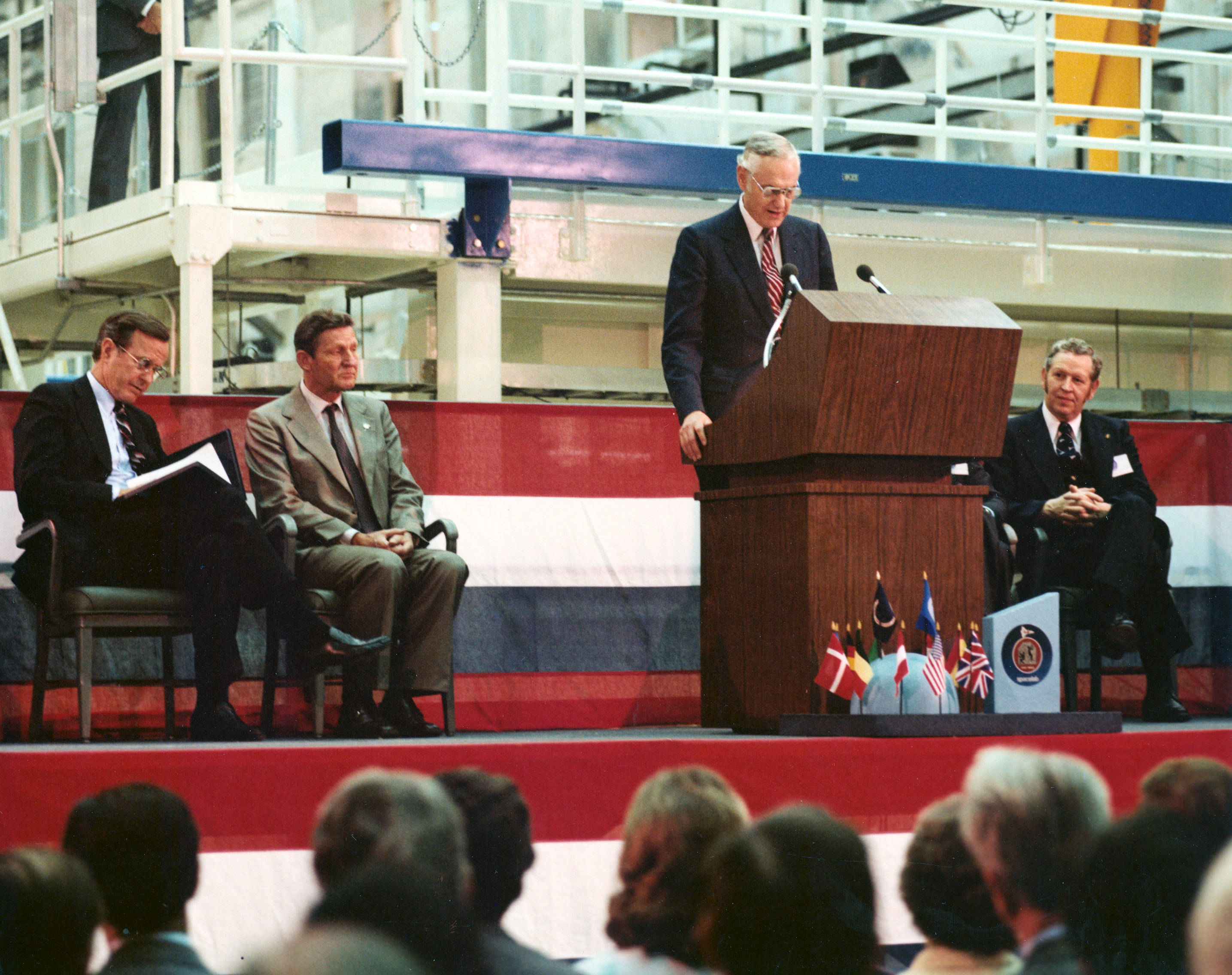 NASA Administrator James E. Beggs speaks at the Spacelab arrival ceremony held at the Operations and Checkout Building, Kennedy Space Center. Sharing the platform are, from left, Vice President George Bush; Eric Quistgaard, director general, European Space Agency (ESA), and Richard G. Smith, director of Kennedy Space Center.